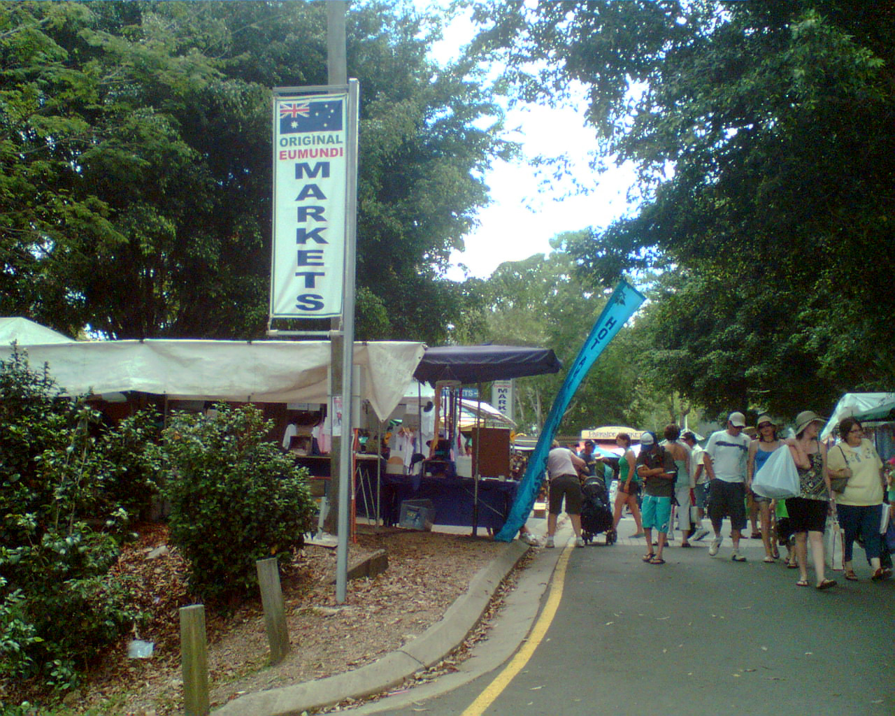 Eumundi Markets, by Arnzy 03:54, 9 December 2006 (UTC)